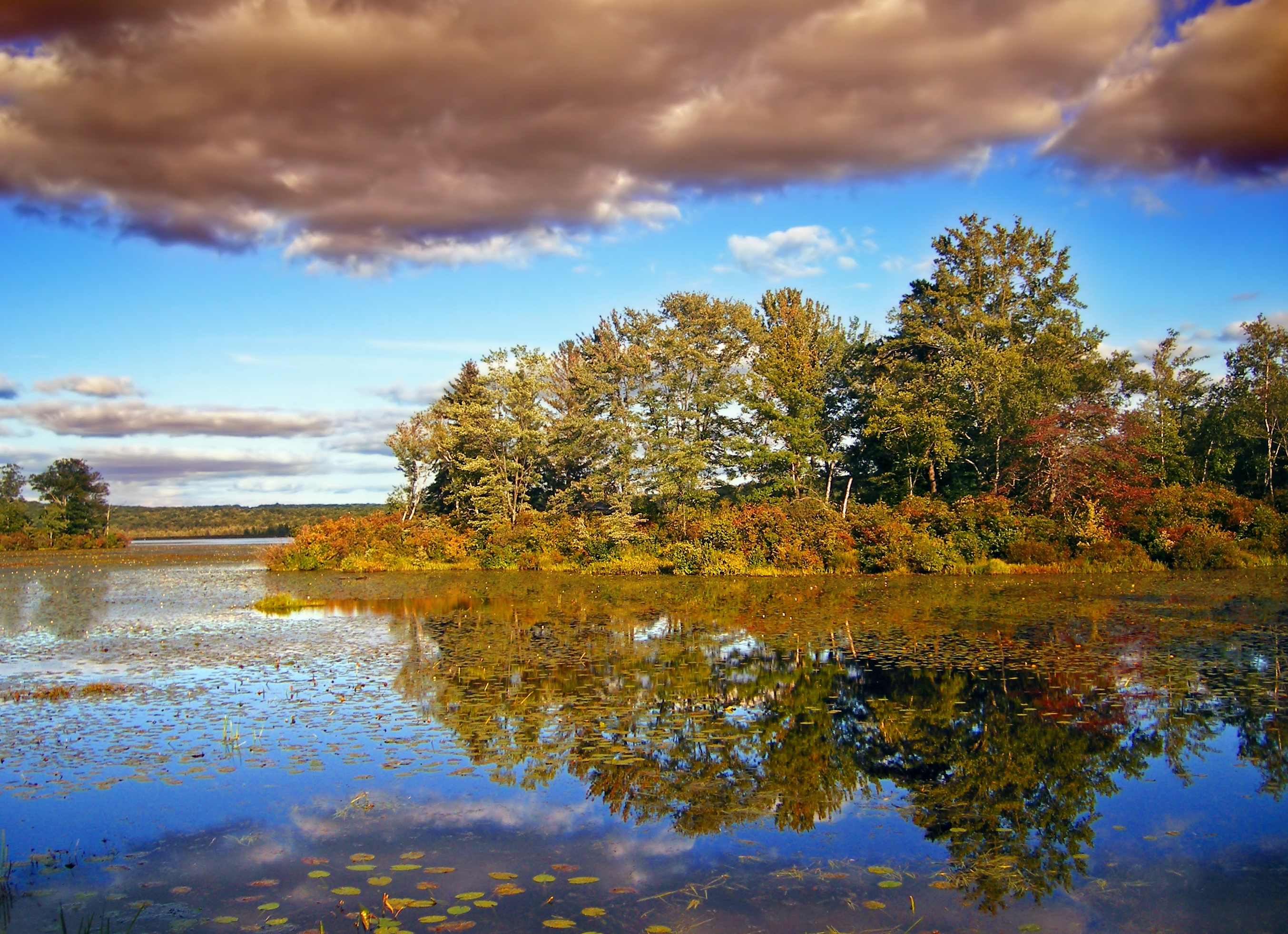 Late-day light, Pecks Pond, Pike County, within Delaware State Forest. Winter view here .Autumn Prelude